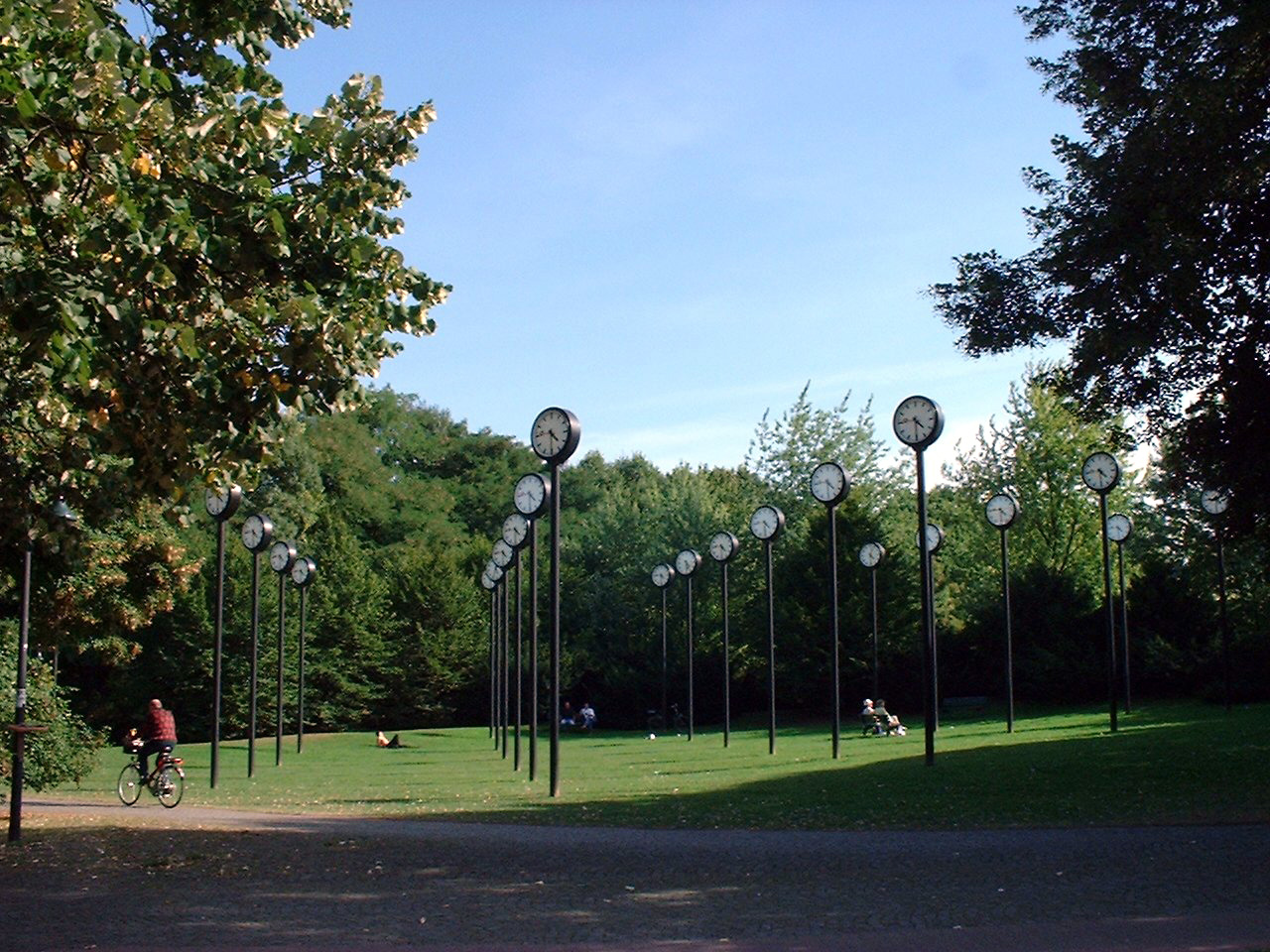 The installation Zeitfeld (Time field) is a work of art by the German artist Klaus Rinke. It is composed of 24 clocks, all keeping the same time. Created: 1987 for the Bundesgartenschau in Düsseldorf. Location: Entrance Südpark, Düsseldorf, Germany